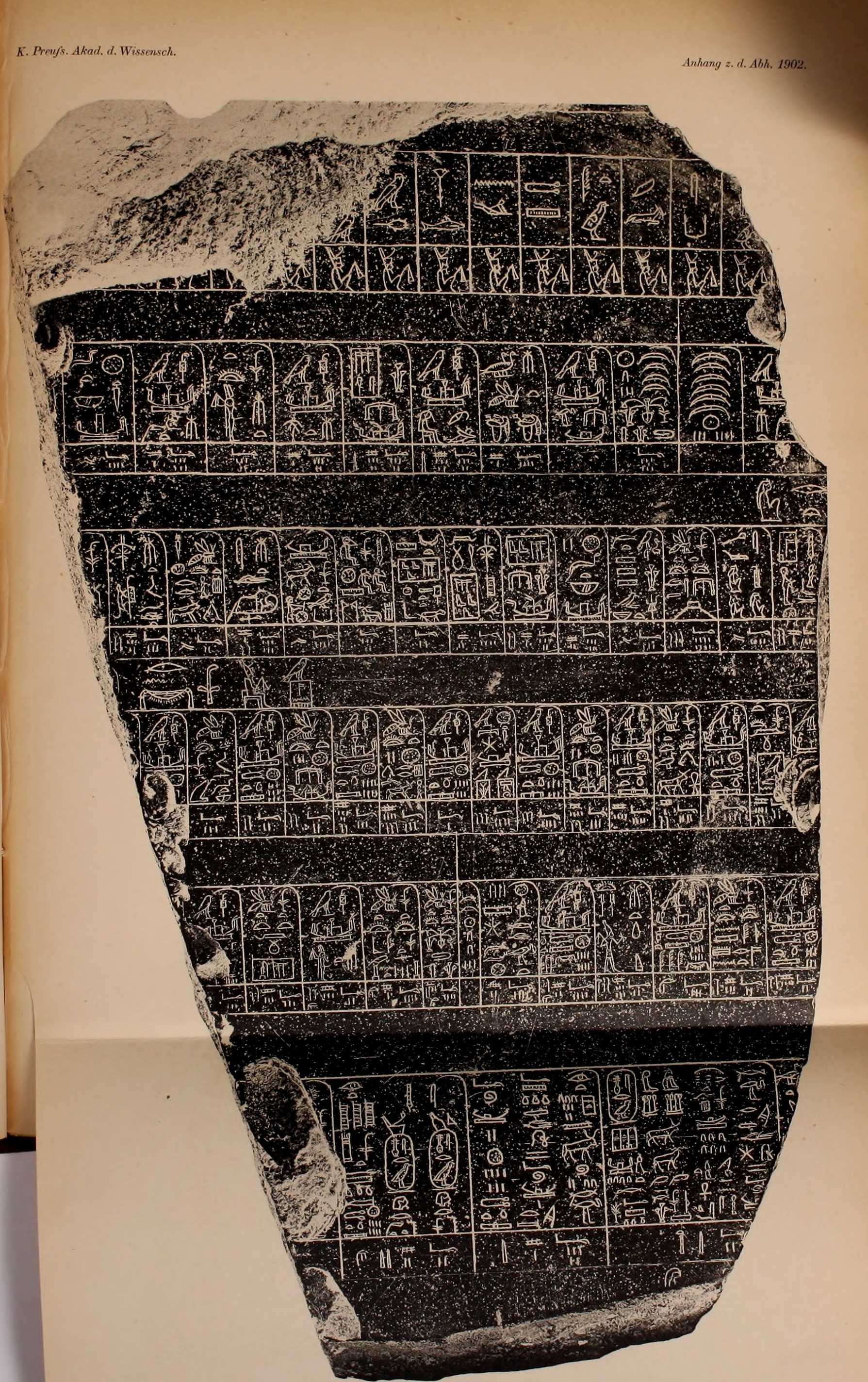 Title: Abhandlungen der Königlich Preussischen Akademie der Wissenschaften aus dem Jahre .. Year: 1901 (1900s) Authors: Königlich Preussische Akademie der Wissenschaften zu Berlin Subjects: Publisher: Berlin : Verlag der Königlichen Preussischen Akademie der Wissenschaften Text Appearing Before Image: /, Prniß. Akml. ,1. Wissrimh. Text Appearing After Image: Uer Stein von ralermo. Vorderseite. H. Schäfer: Ein Bruchstück altägyptischer Annalen. Taf. I.